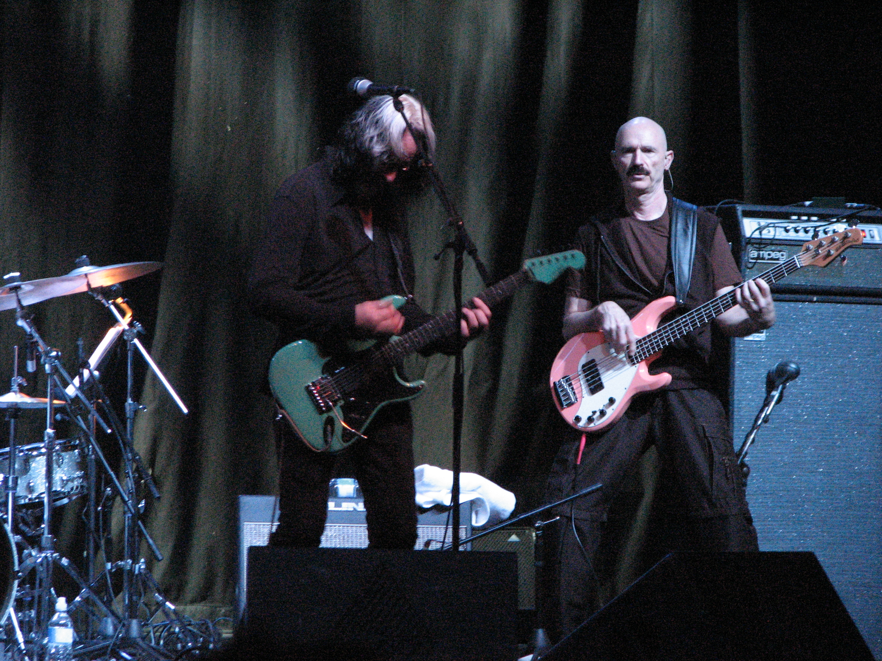 Tony Levin and Todd Rundgren